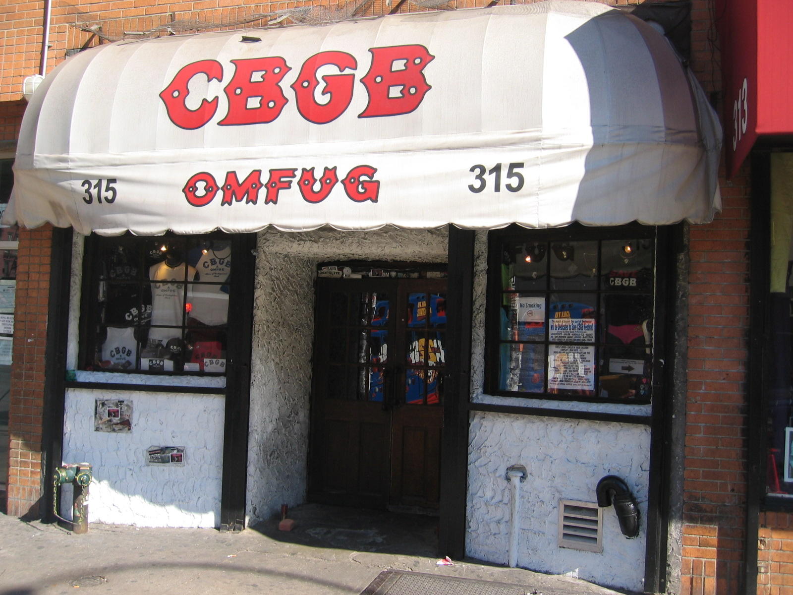 CBGB club facade, Bowery St, New York City. Photograph by Adam Di Carlo, taken 10/1/2005. Image uploaded to Wikipedia by the author.